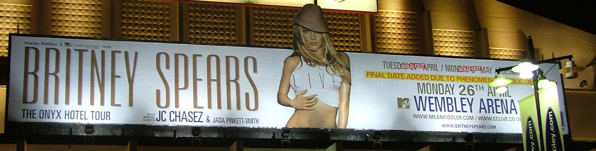 Spears concert in 2004 promotion